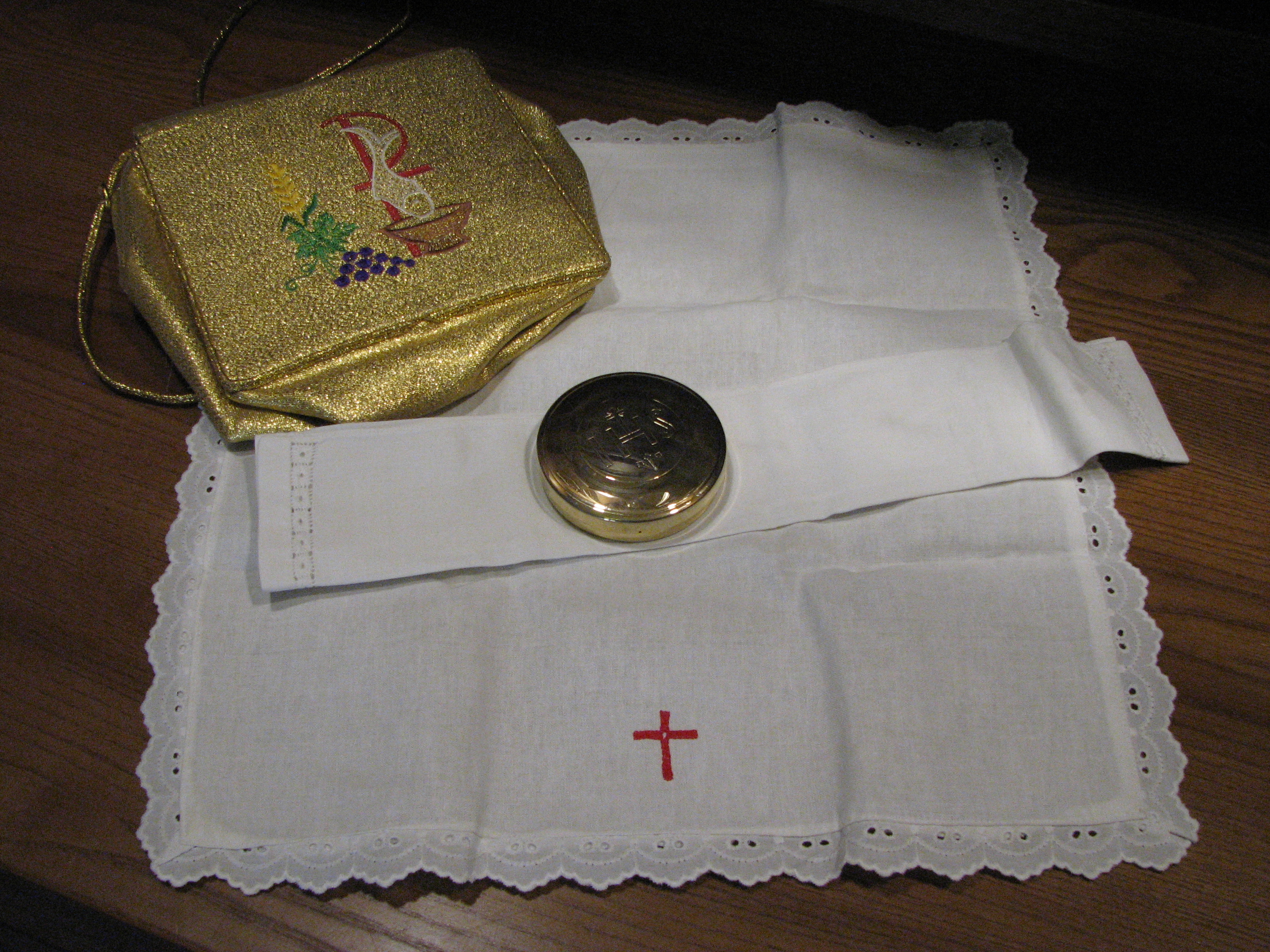 Burse (Bursa) to carry Holy Communion to the patient's home or hospital rooms.